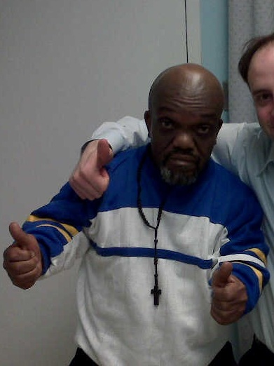 This picture was taken in February of 2009 in Manhattan. At that time Raymond was living in a homeless shelter in Greenpoint, Brooklyn. He was not aware multiple internet websites have been claiming that he died in 2001.